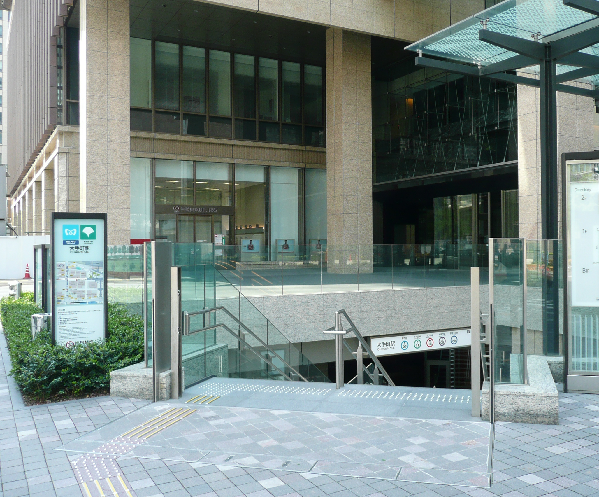 Otemachi Station (Tokyo) Exit B1